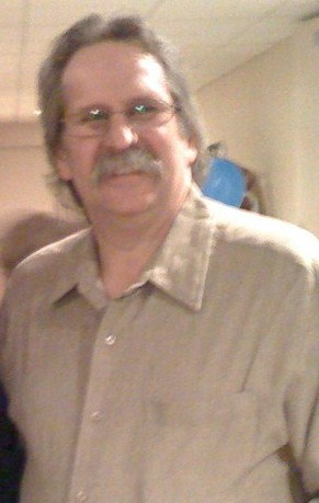 David Guttenberg